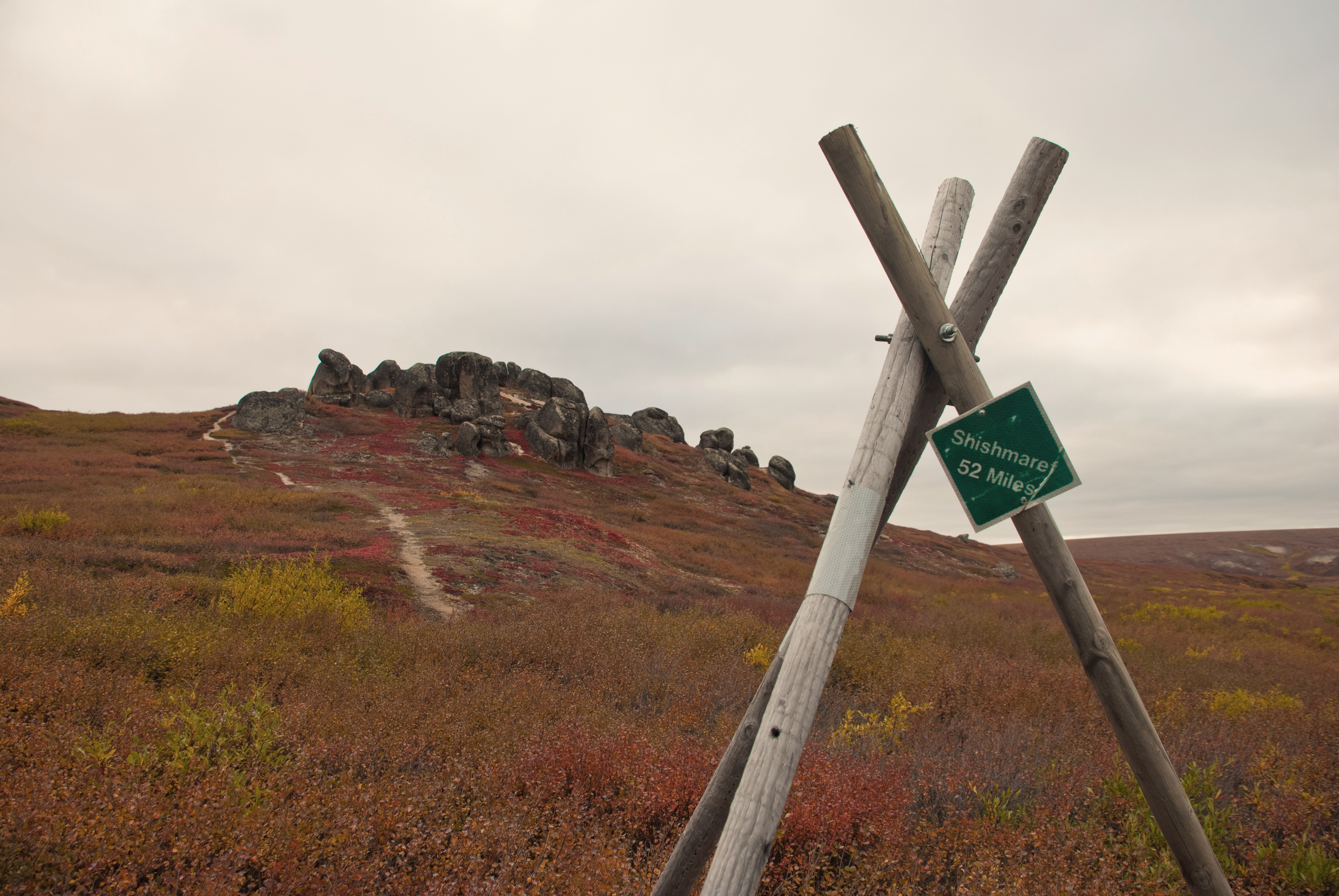 Snowmachine sign